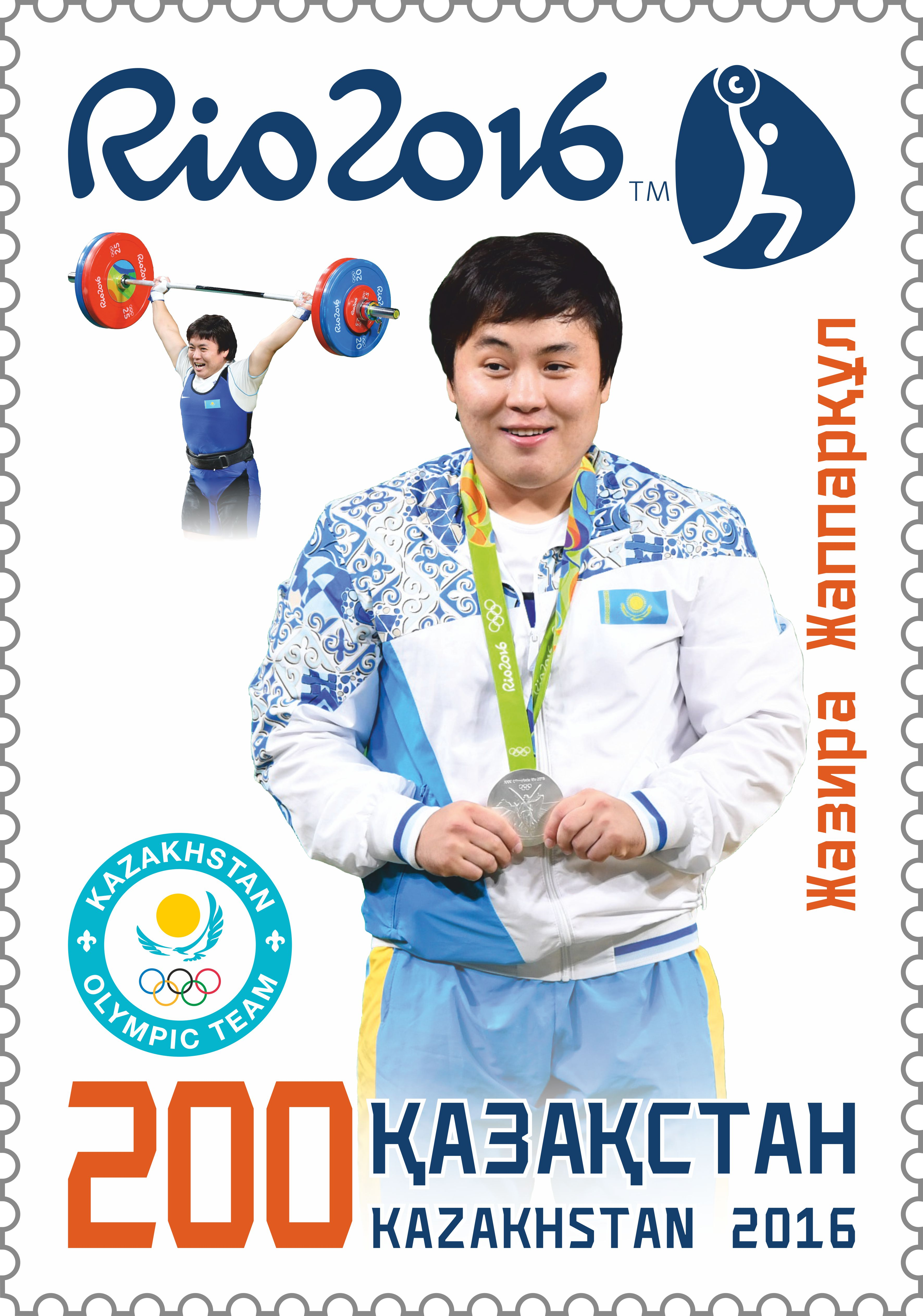 1004-1011. Sports. The XXXI Olympic Games in Rio de Janeiro.